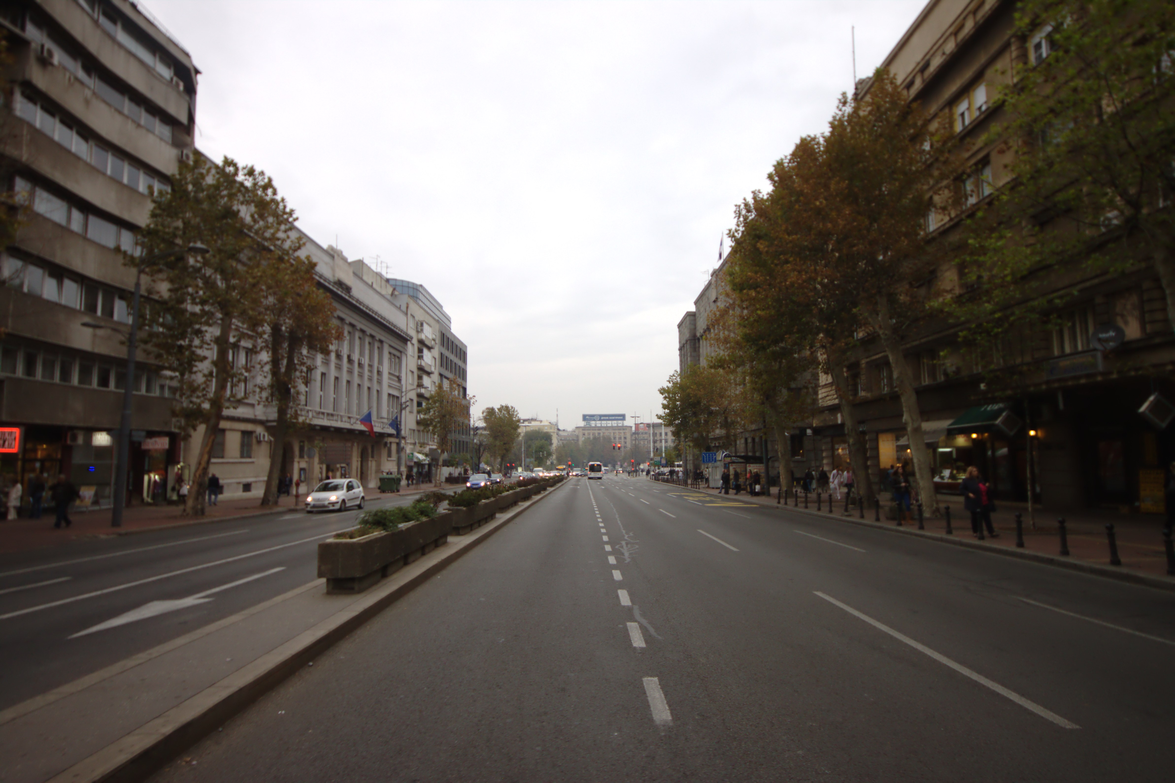 Central part of Belgrade, Serbia